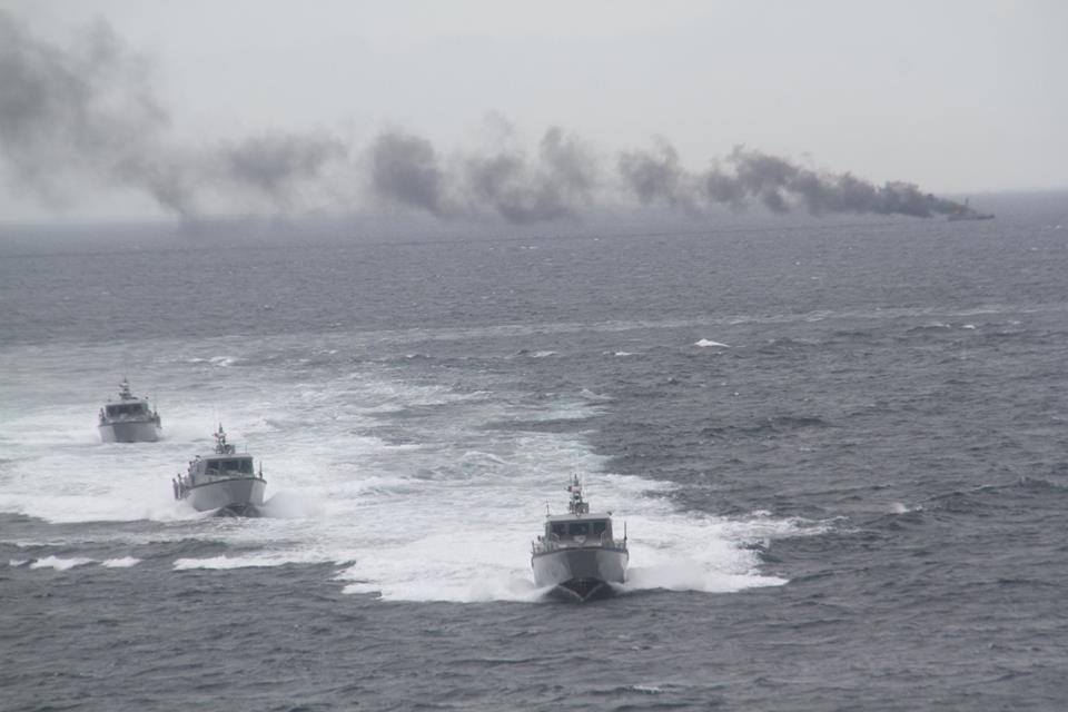 Three of the PN's MPAC Mk. III during a live fire exercise in November 2018 which involves the launching of Spike-ER missiles on the hulk of the former PN fast attack craft BRP Dionisio Ojeda.